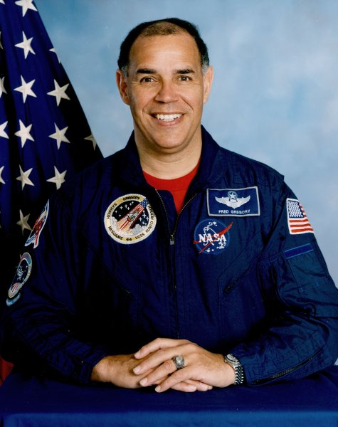 Frederick D. Gregory